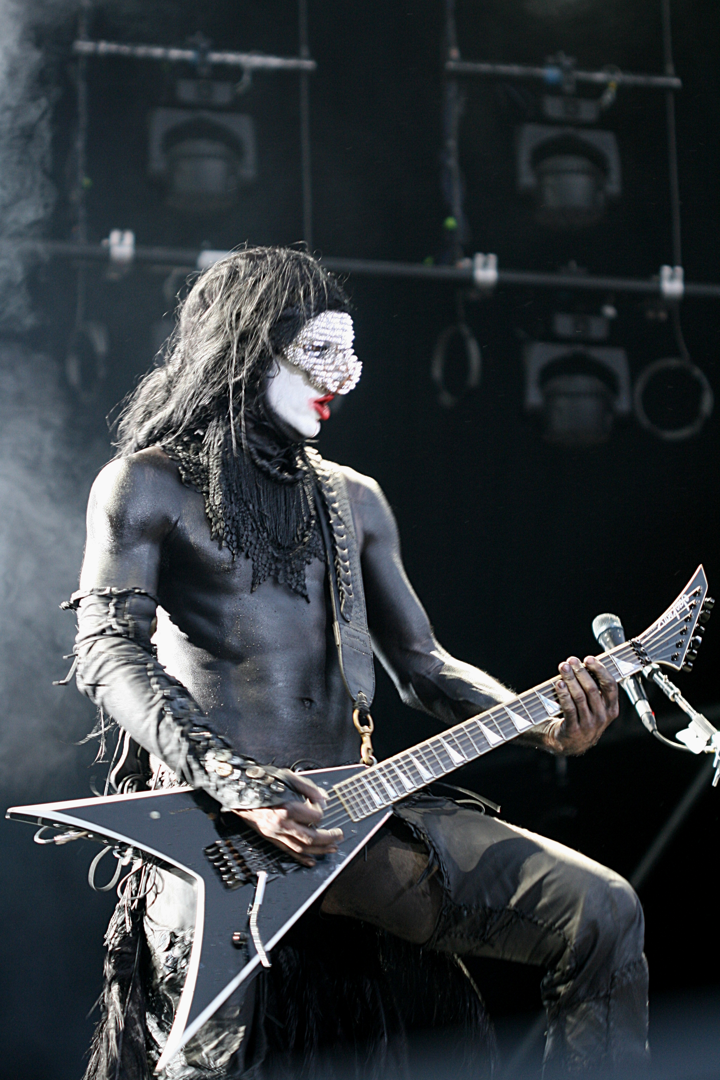 Wes Borland, guitarist of Limp Bizkit, on the Alterna Stage of Rock im Park-Festival 2013. Festivalsommer This photo was created with the support of donations to Wikimedia Deutschland in the context of the CPB project "Festival Summer".